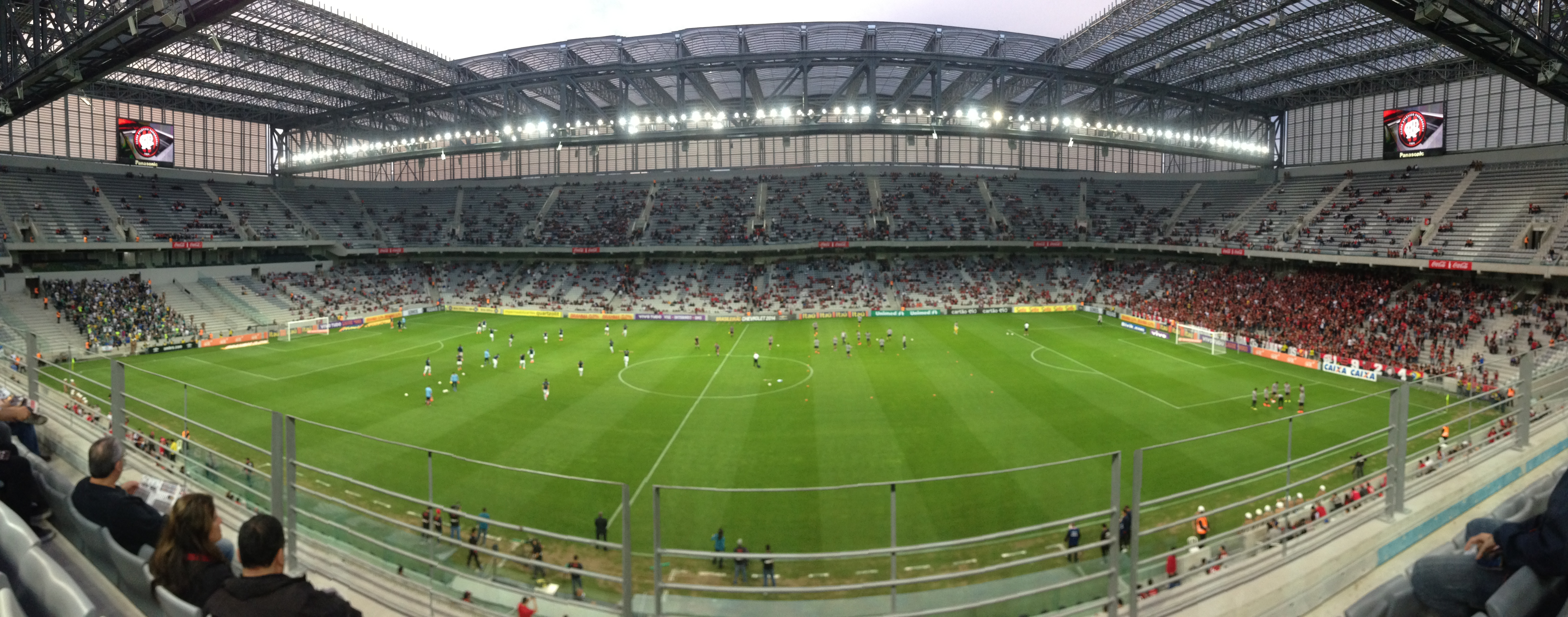 Arena da Baixada Panoramic